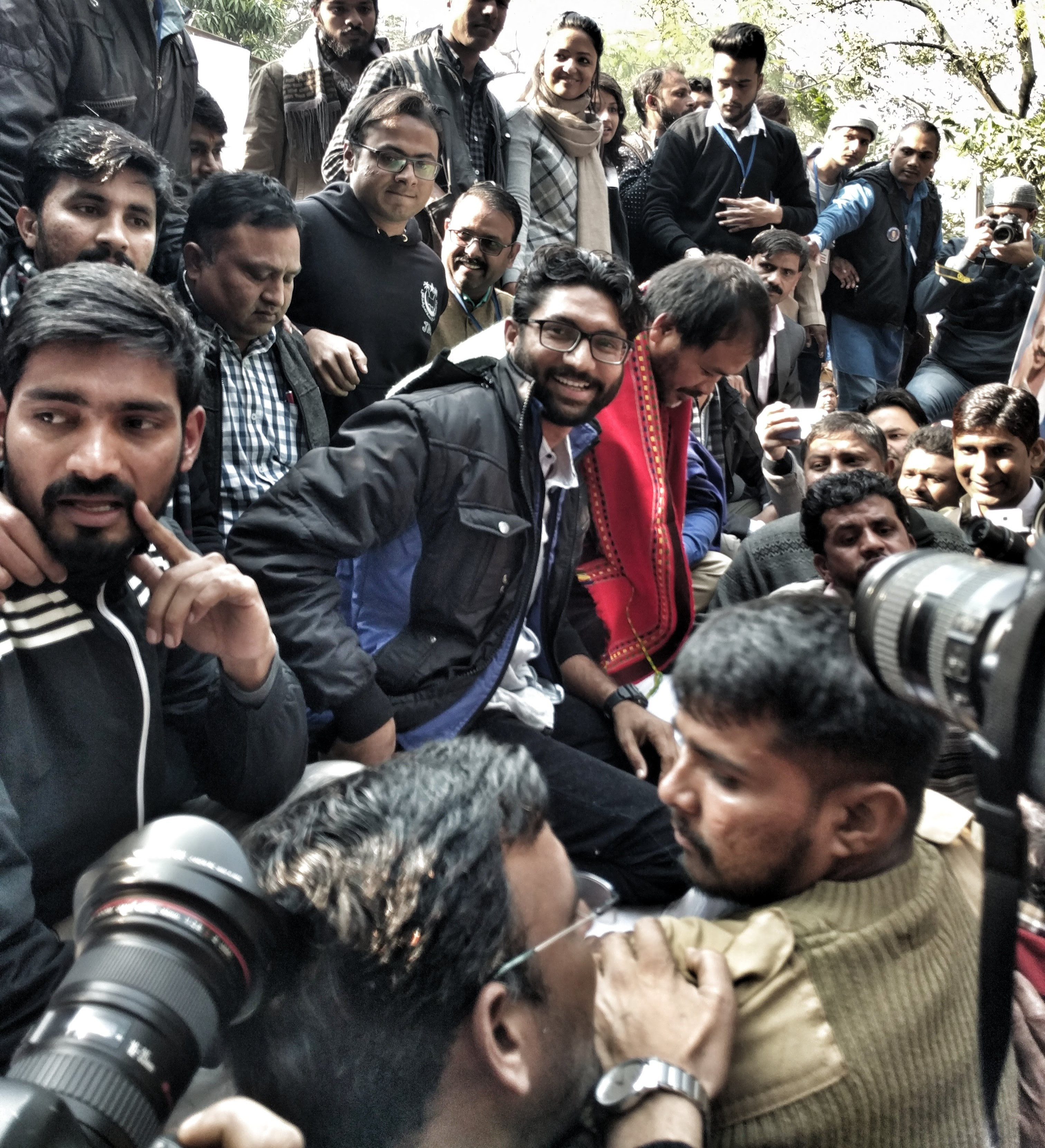 Jignesh Mevani (center) at Youth Hunkar rally, Parliament Street, New Delhi, 9 January 2018. Shehla Rashid also visible in the picture at the top.